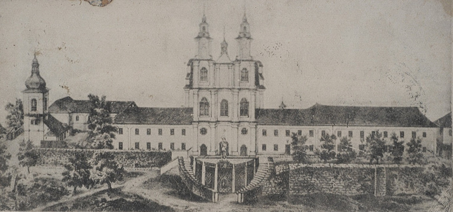 Buchach